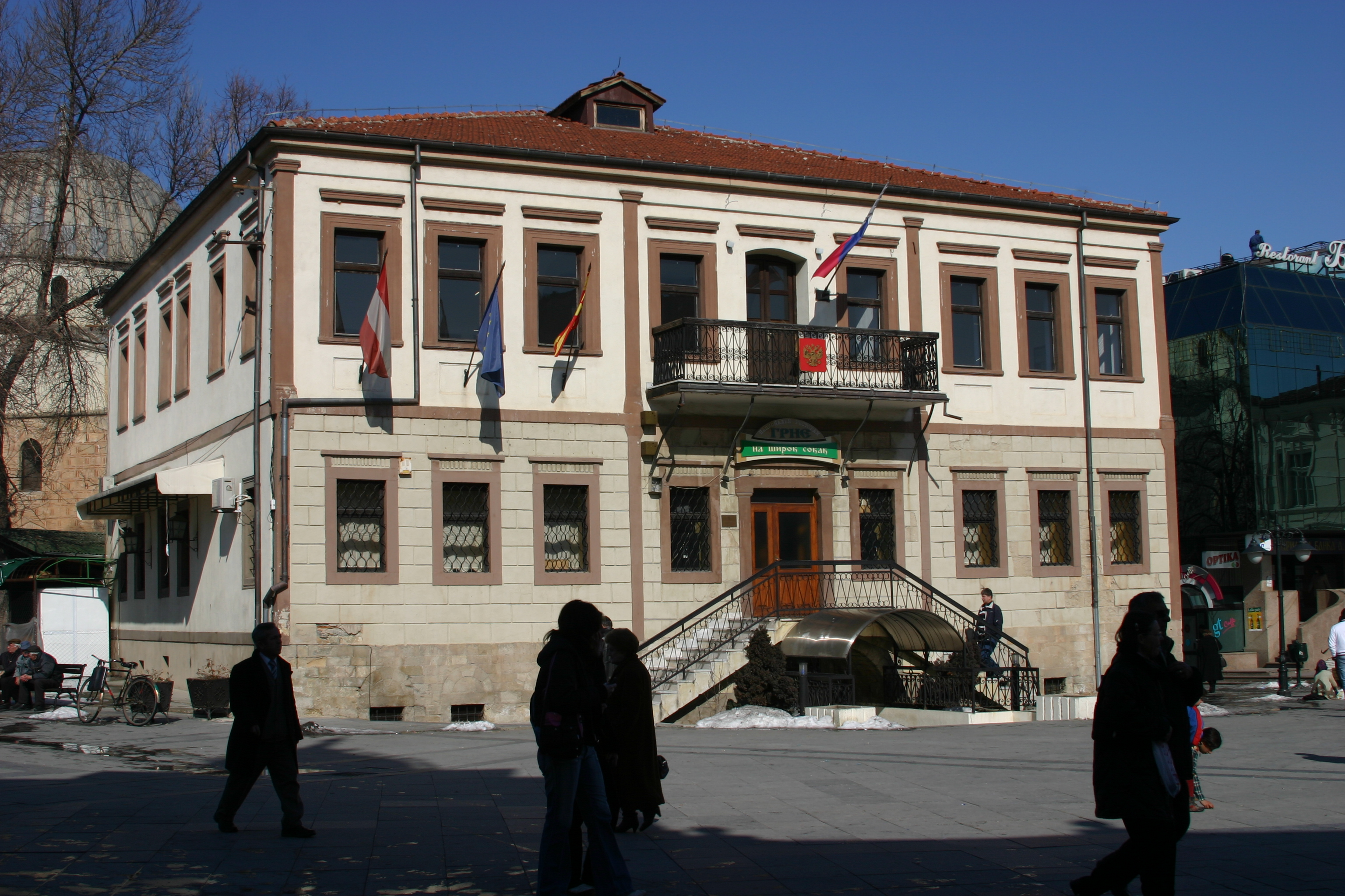 The russian consulate and the austrian library in the center of Bitola